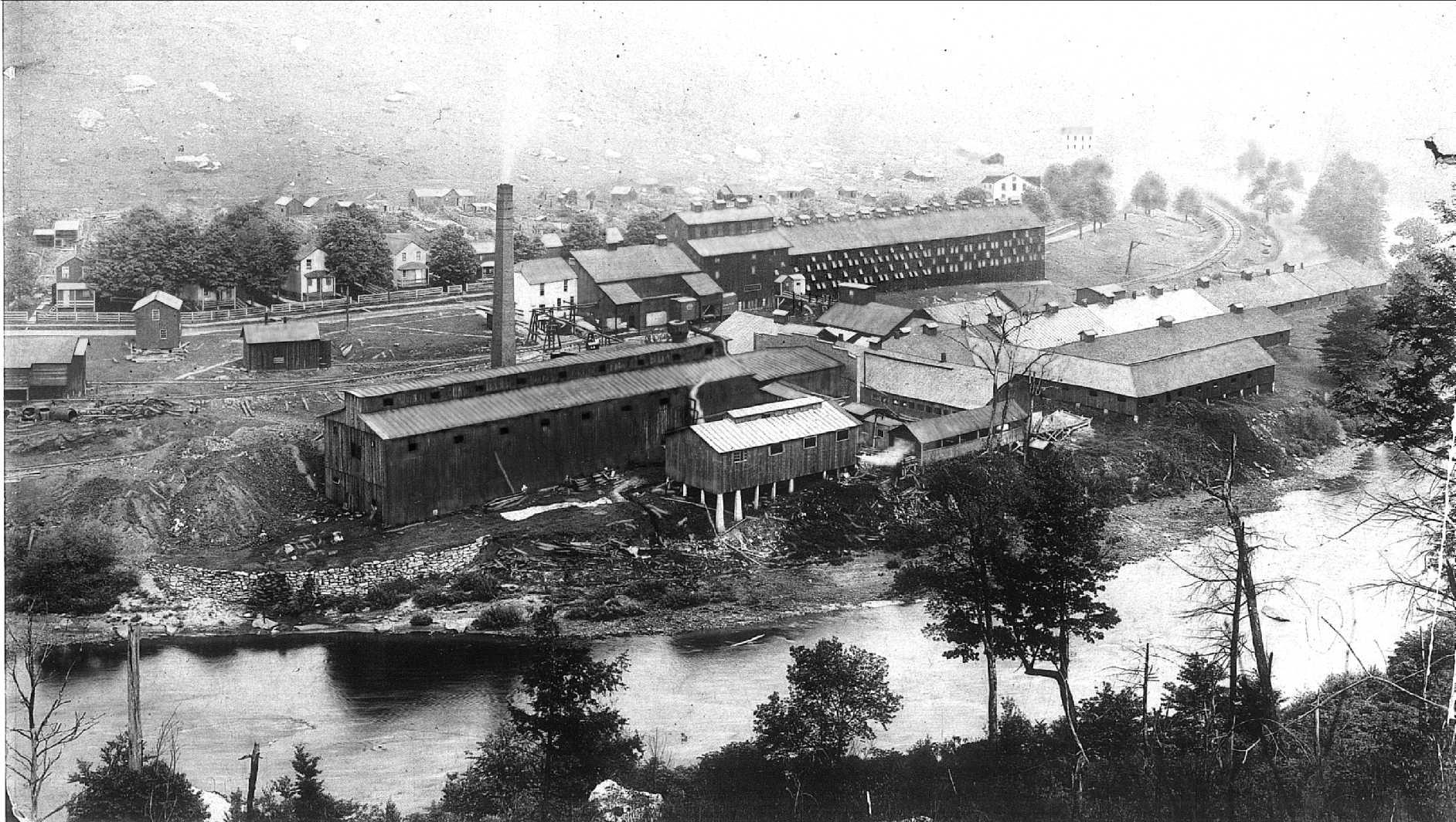 Arroyo, PA tannery early 1900's, on the Clarion River in Elk County